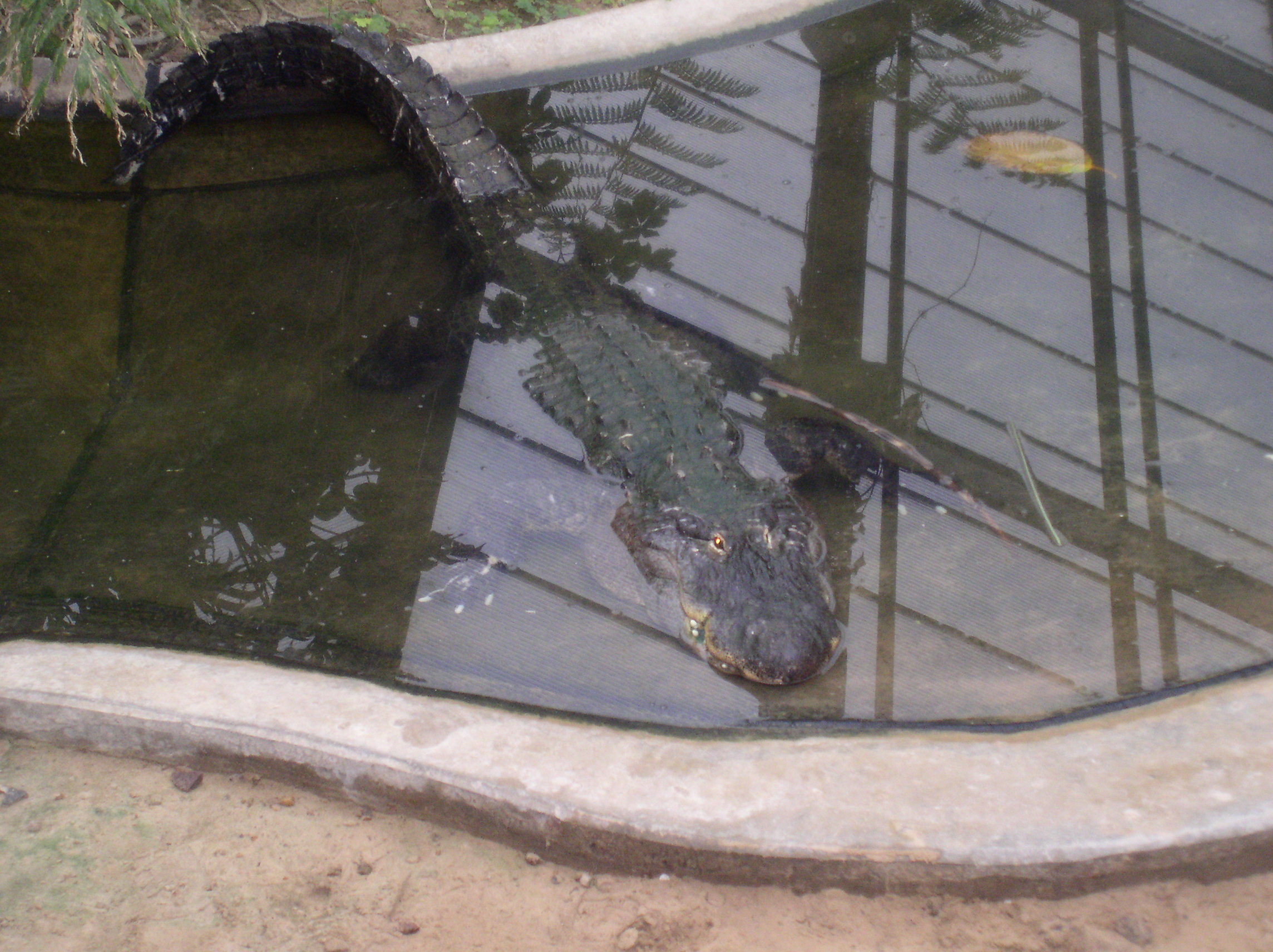 American Alligator (Alligator mississipiensis), taken at the Tierpark Berlin, Germany